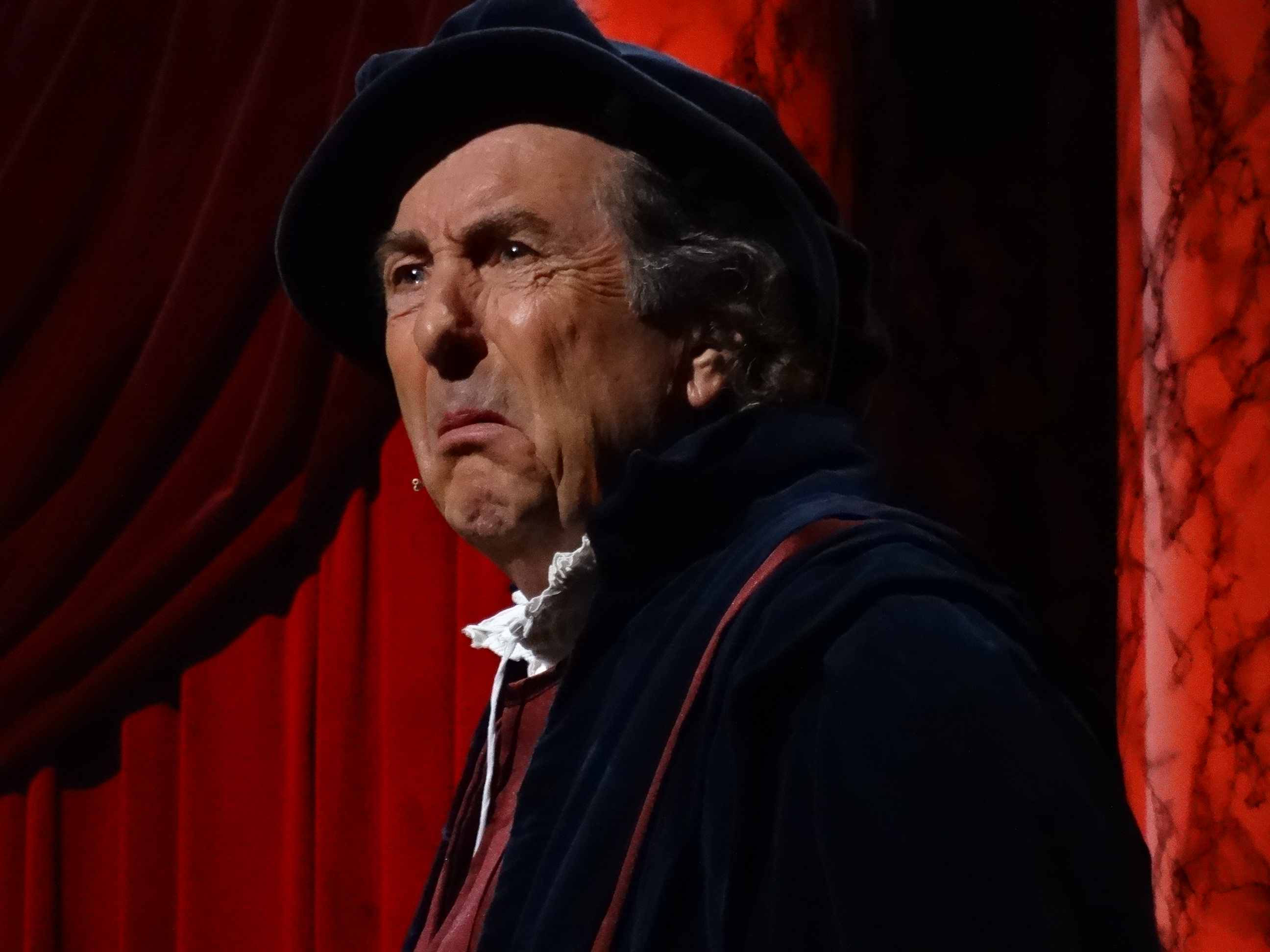 Eric Idle performing the "Michelangelo" sketch during the Monty Python Live (Mostly) show.